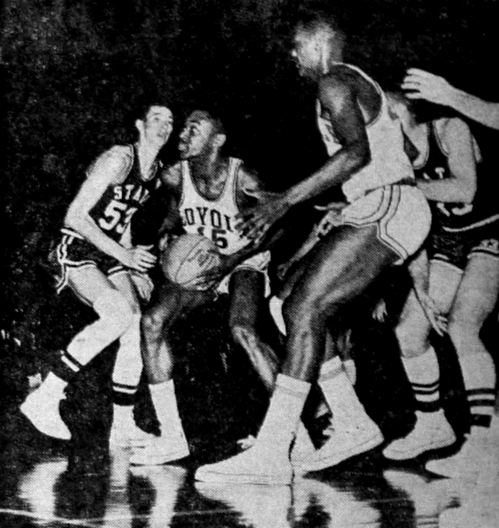 A photo from a scanned issue of Loyola News, the student newspaper of Loyola University Chicago Original caption: "HARKNESS twists and turns under basket before laying one in. Hunter waits for rebound that didn't come." — Loyola News